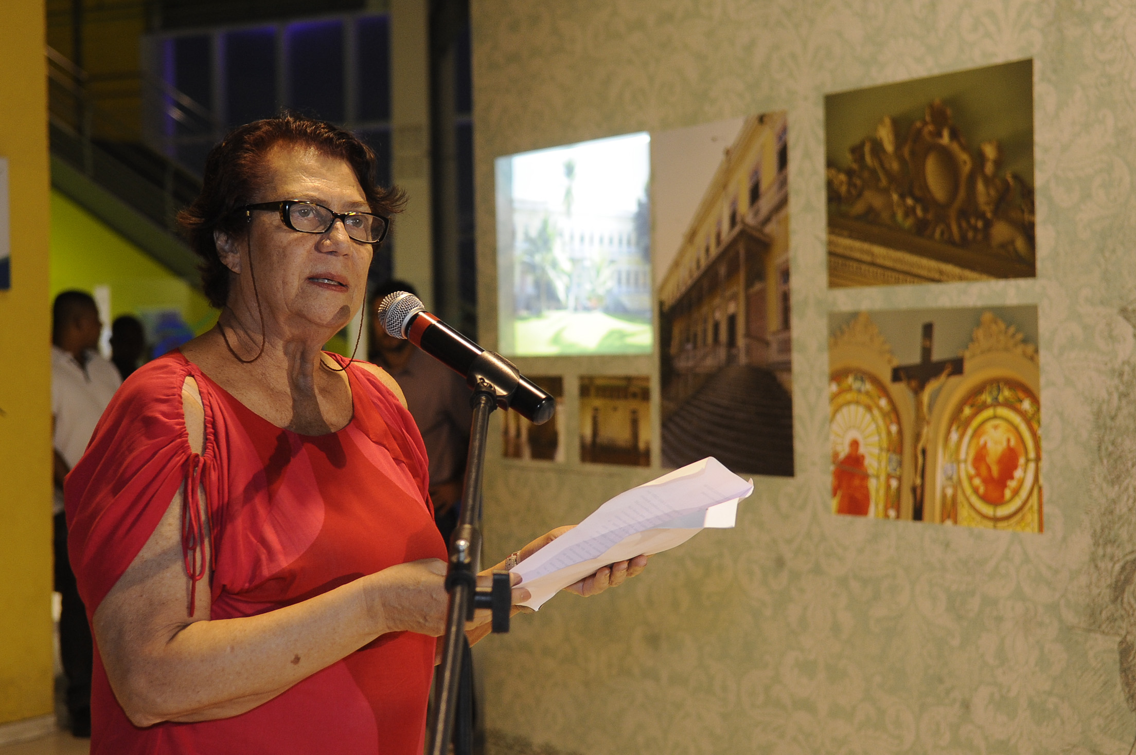 Brazilian writer Ana Maria Machado